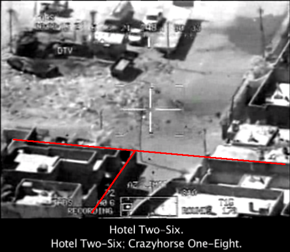 Gun camera footage of the airstrike of 12 July 2007 in Baghdad, showing the slaying of Namir Noor-Eldeen and a dozen other civilians by an US helicopter. One frame from 5:00 of this video has been used to measure the position of the sun. The red lines should mark due east-west and due north-south. From examination of the Google Earth version of the map, at the coordinates given in the Wikipedia article, it appears clear that the scene is being viewed from the north. Measurements taken were that the east-west line was +540x, +50y; the north-south line was -85x, +121y; and the telephone pole shadow was +87x, +23y, where x,y are pixels from the upper left corner. These were calculated to mean that the angle of the pole was at tan-1(0.15) and that the sun is 8.5 degrees south of due east. Using this angle, the equation of time to subtract 6 minutes from the local time, and the longitude of Baghdad to subtract 2 minutes (to make it a UTC+3 local time zone), I calculated a time of 6:26 a.m. (not counting daylight savings time). The footage reads 06:23:22. On this basis I believe the helicopter footage is in local time, not in GMT standard time. Note that this conflicts with the U.S. Army report. (see [1]). Note that this "original research" cannot be cited or used in the Wikipedia article by itself, but supports a search for other sources.